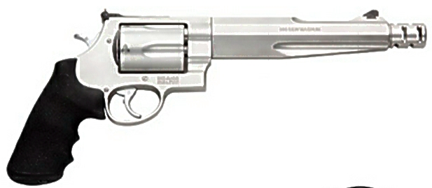 Performance Center Pistol